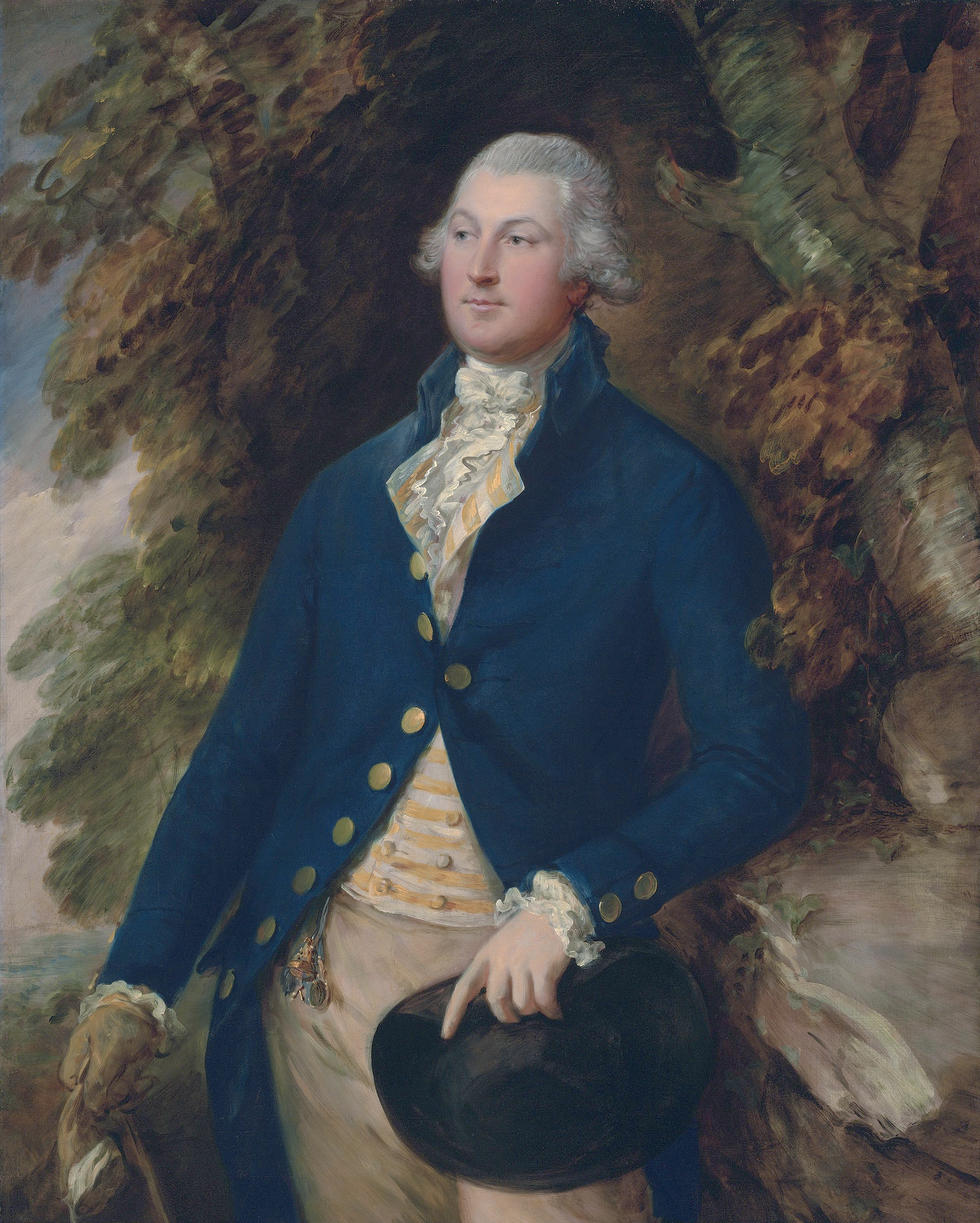 Richard Brooke, 5th Bt (1753-1795) oil on canvas 127 x 102 cm